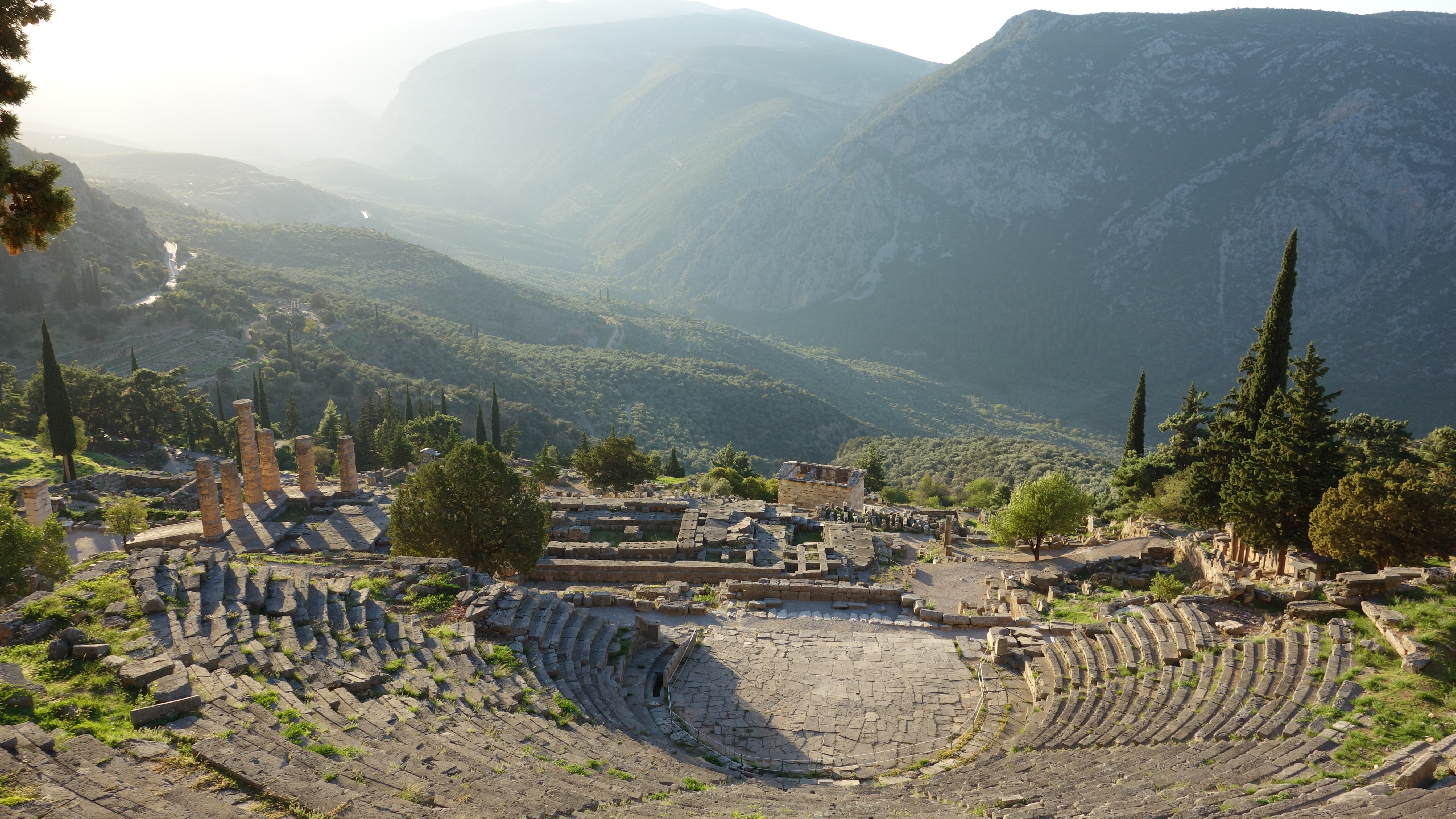 Daybreak over ancient precincts of Apollo and Athena, Delphi, Phokis, Greece